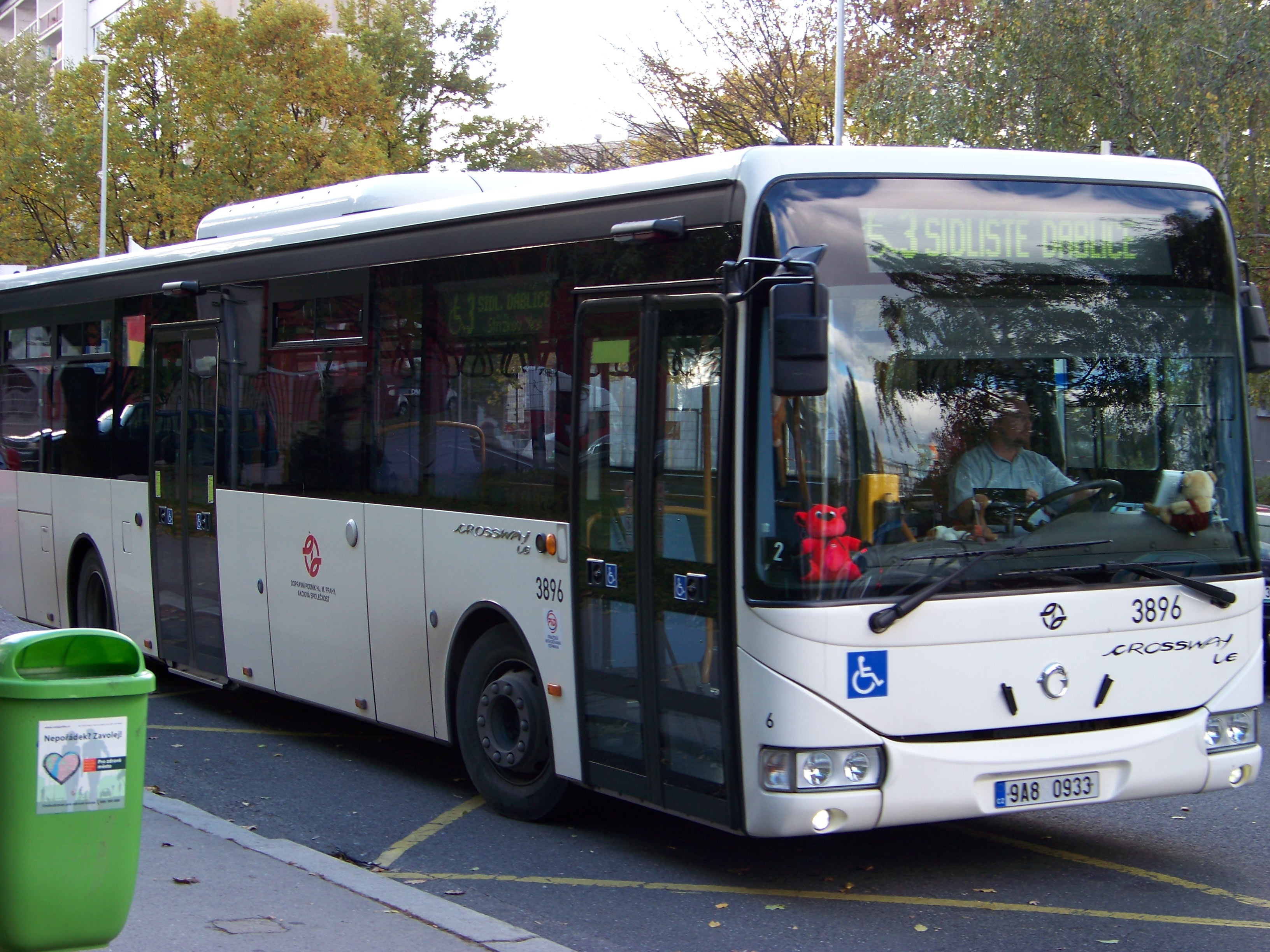 Prague-Prosek, the Czech Republic. A bus Irisbus Crossway LE.